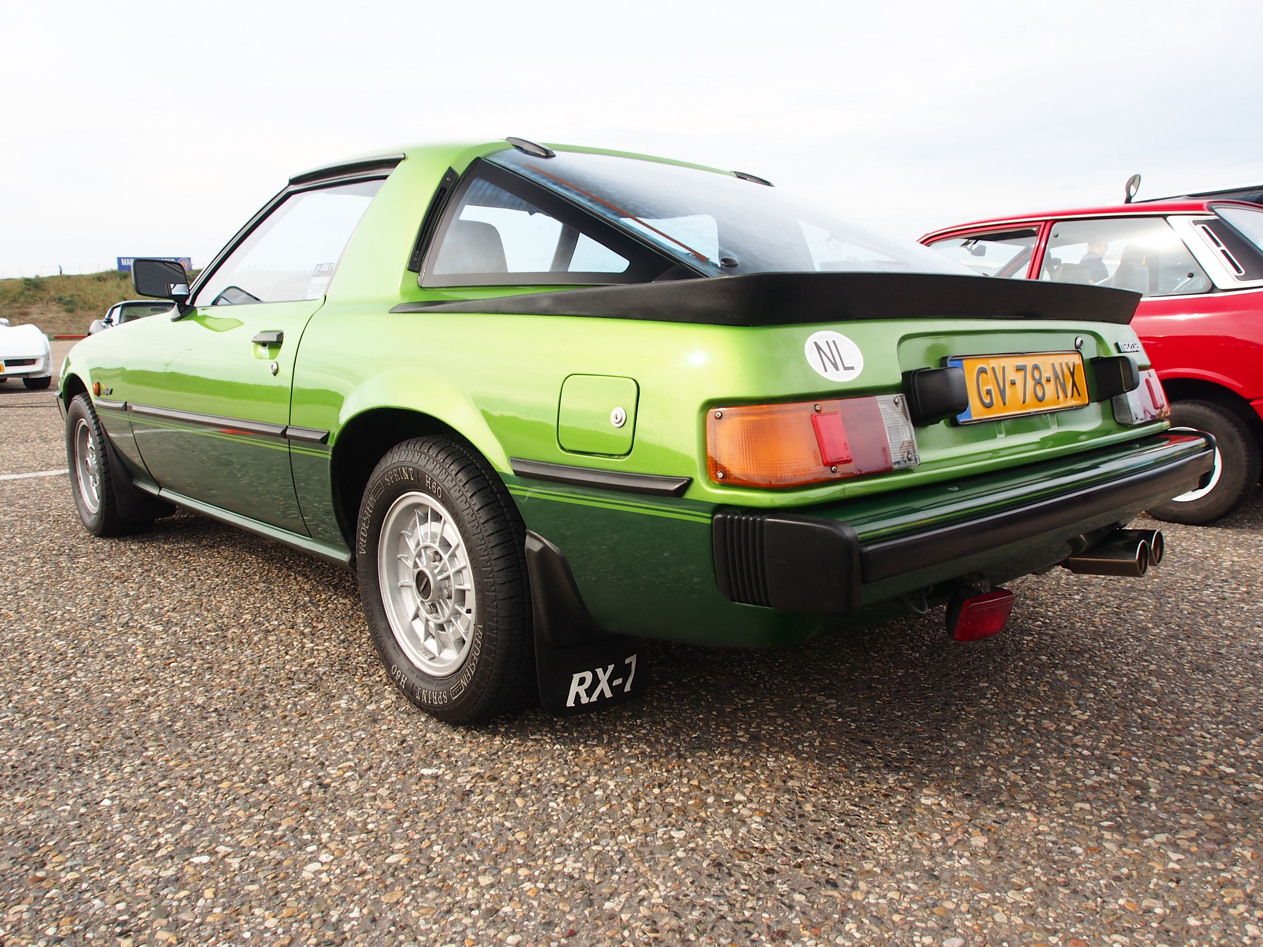 Photographed at the Nationaal Oldtimer Festival Zandvoort 2014, The Netherlands.